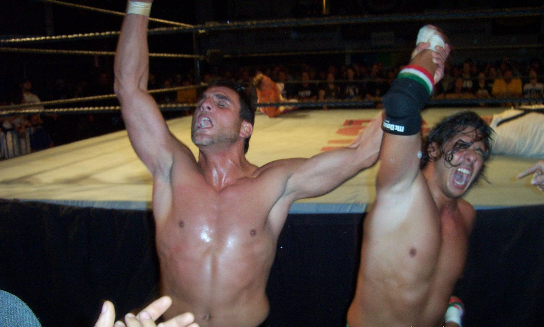 Full Blooded Italians members Little Guido and Tony Mamaluke.